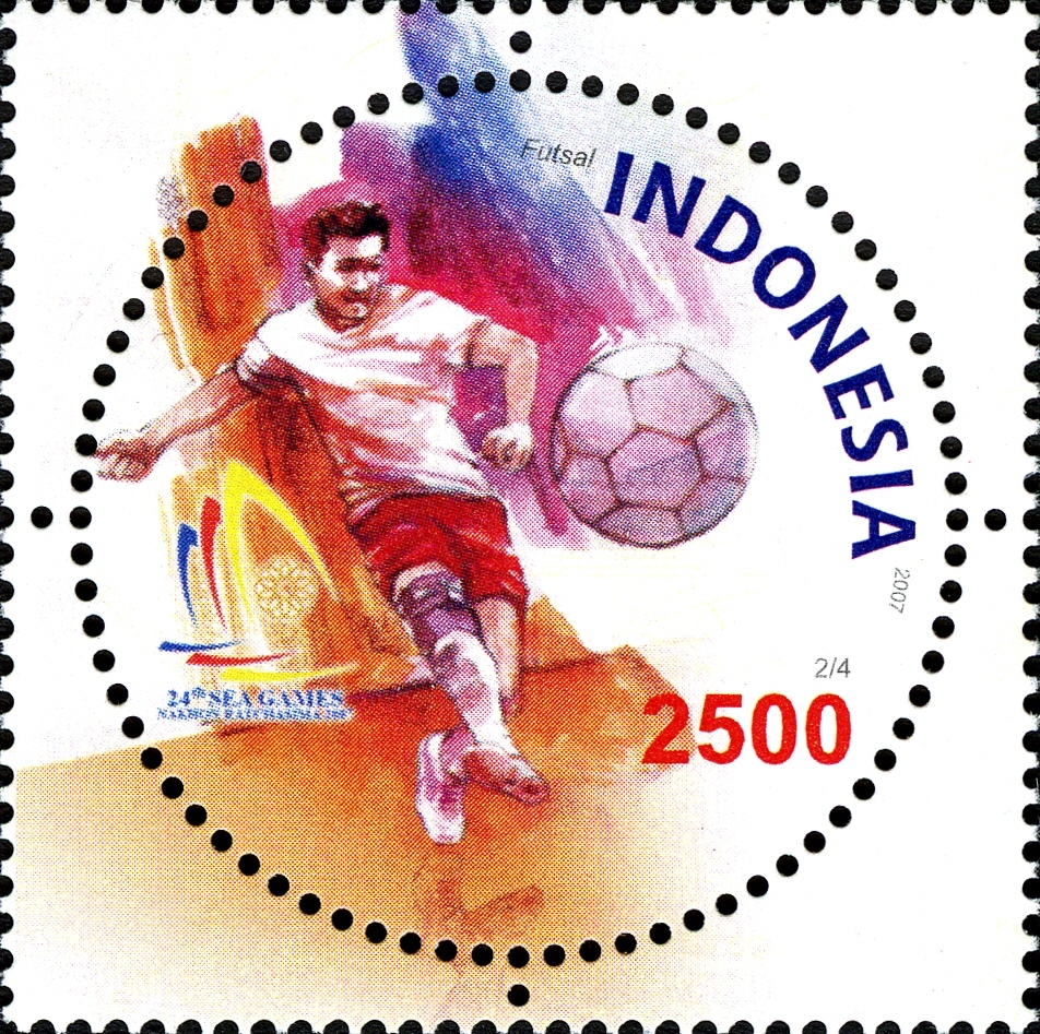 Stamps of Indonesia